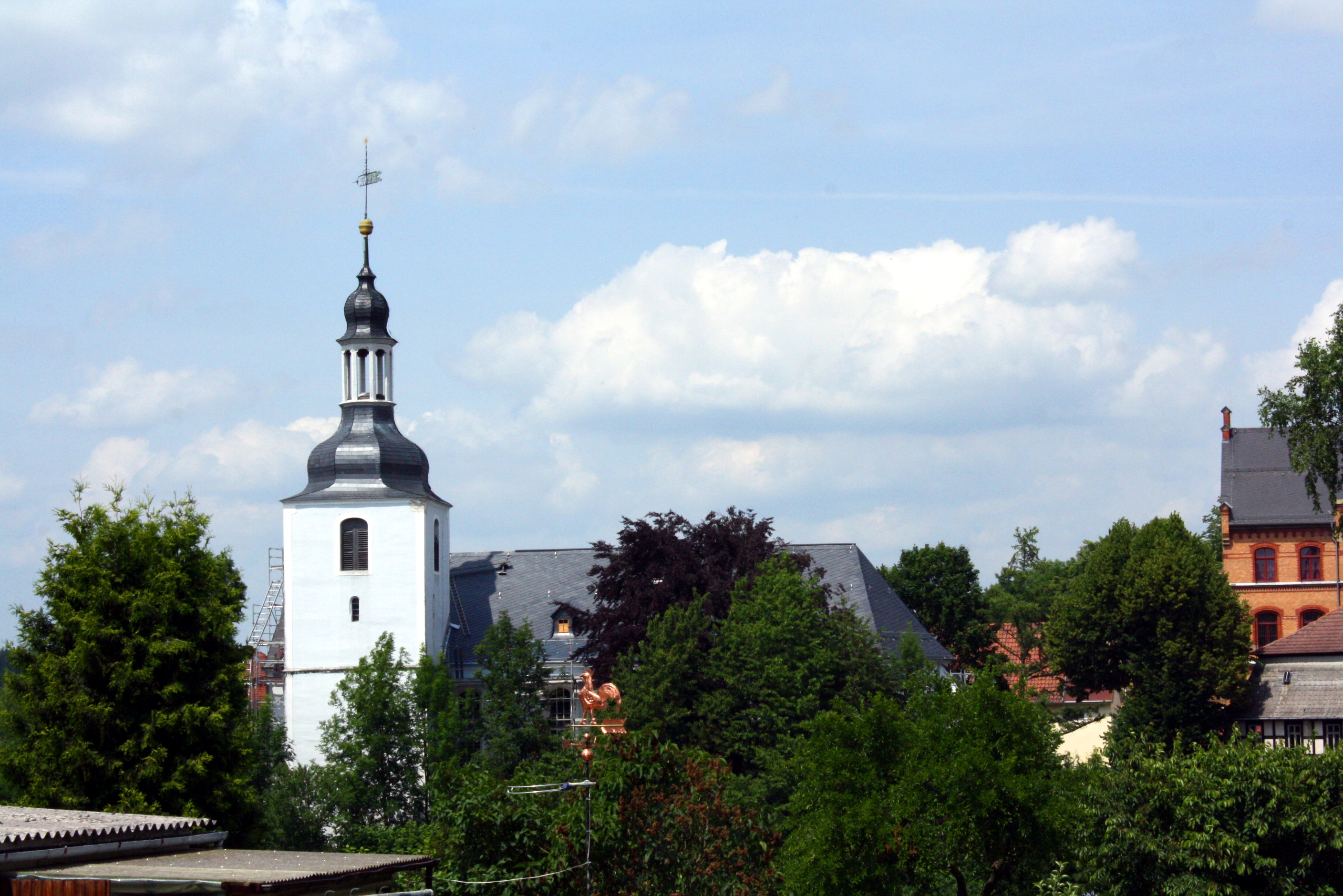 Church in Auma near Greiz/Thuringia